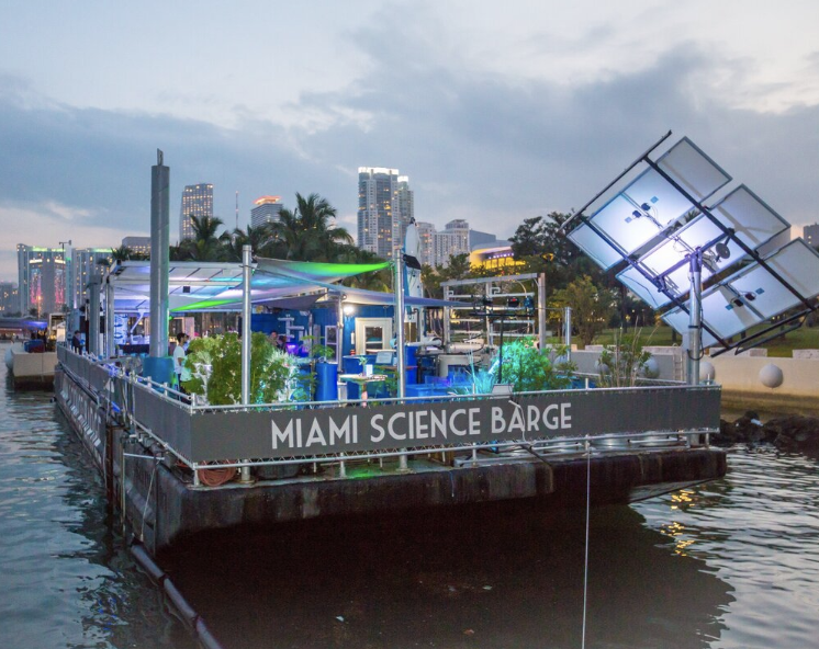 The Miami Science Barge docked at Frost Science